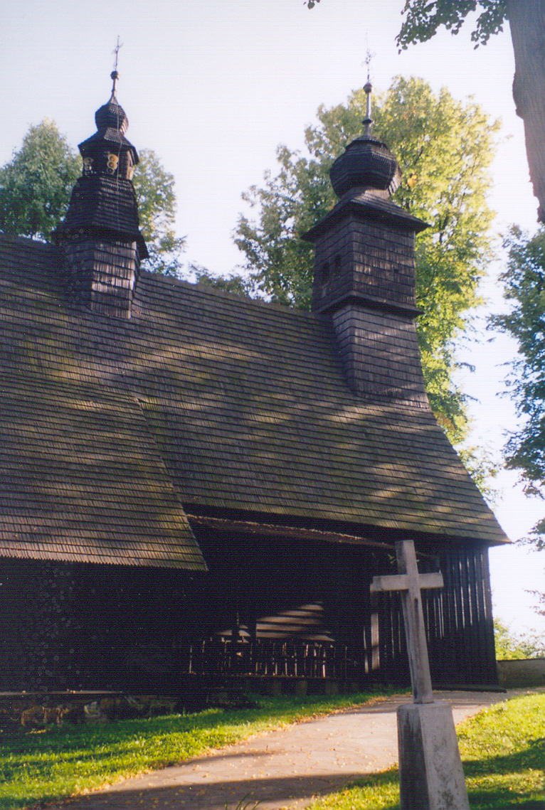 St. Anna Church in Nowy Targ (Poland)